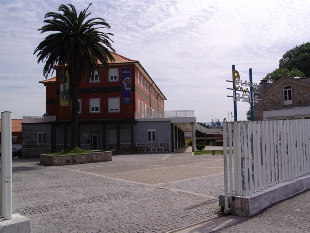 Entrada do Colégio La Salle